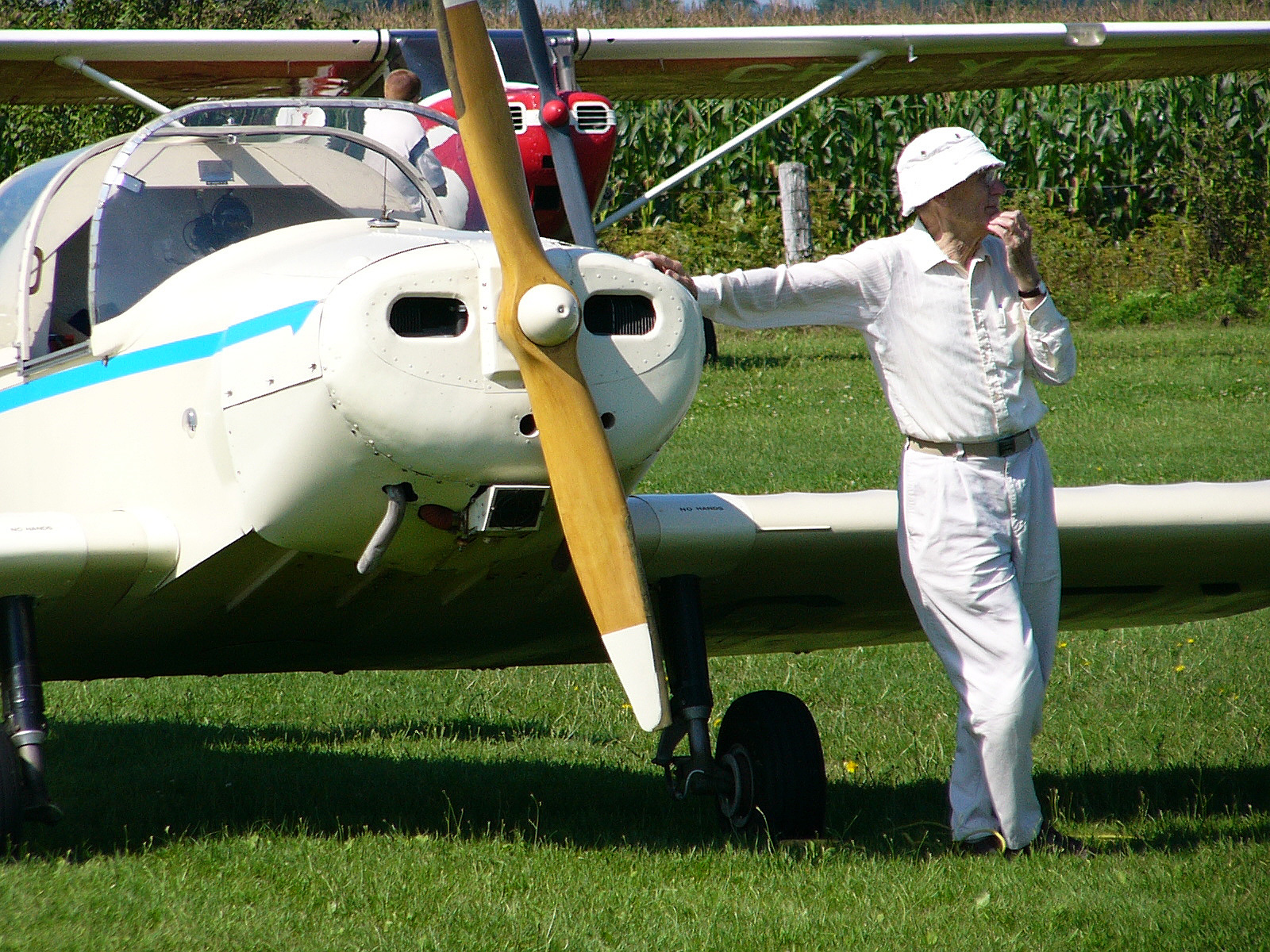 Jodel D11-2 and private pilot at the Alexandria Ontario Fly-in